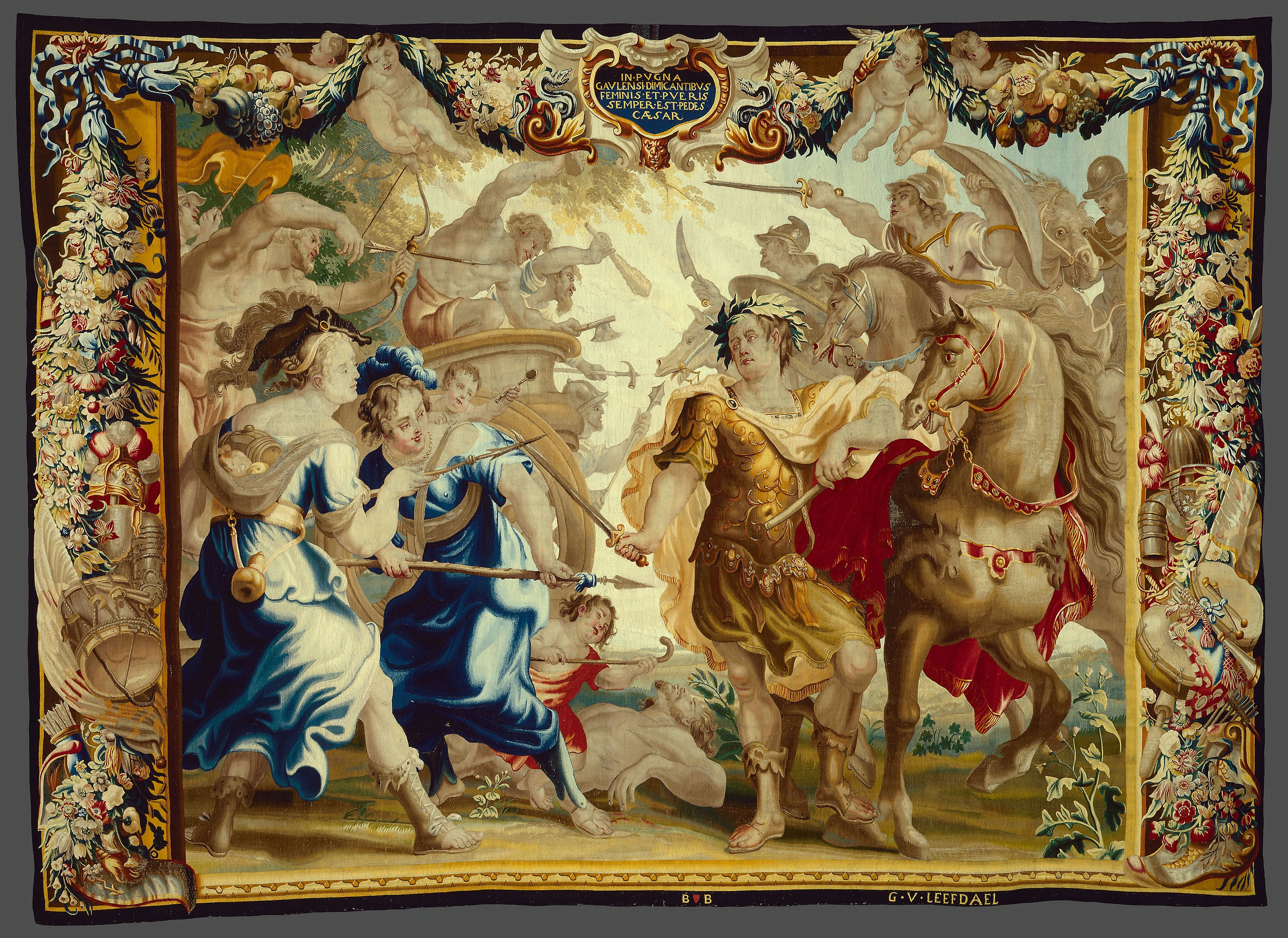 Caesar in the Gallic Wars from the Story of Caesar and Cleopatra tapestry series